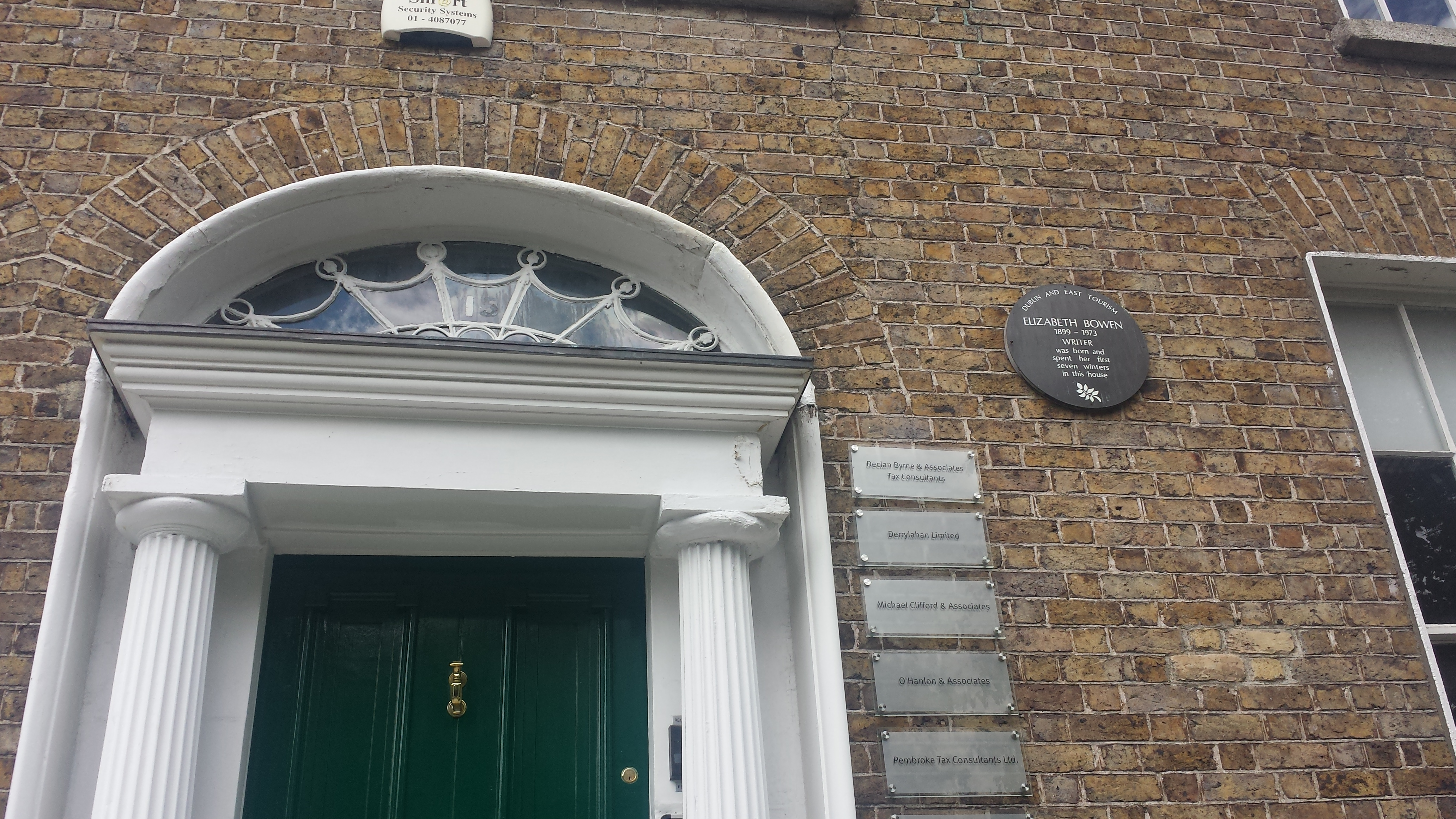 Elizabeth Bowen 1899-1973 writer was born and spent her first seven winters in this house